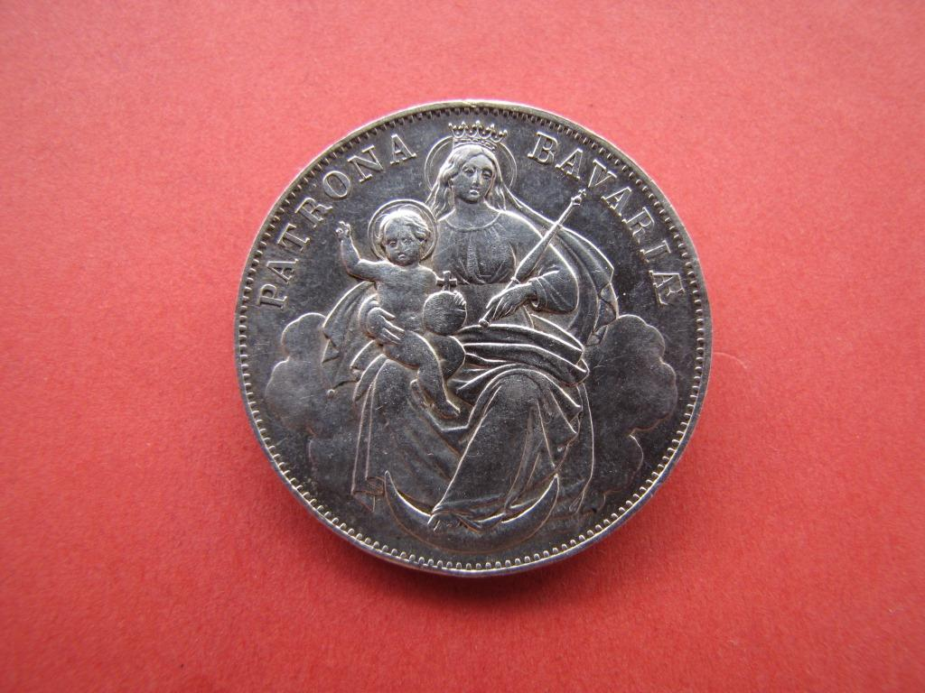 Madonnentaler Bayern reverse 1865. Coin from my collection. I can proove it any time through upload another photo of tis coin in any position